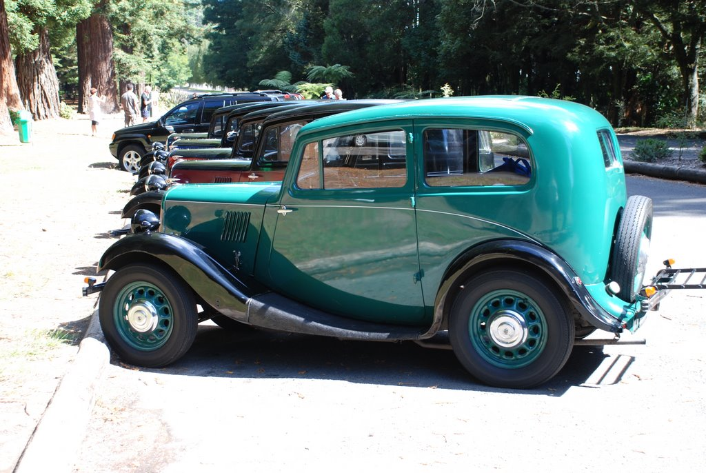 c. 1938 Morris Eight series II Redwood Park, Cambridge, New Zealand